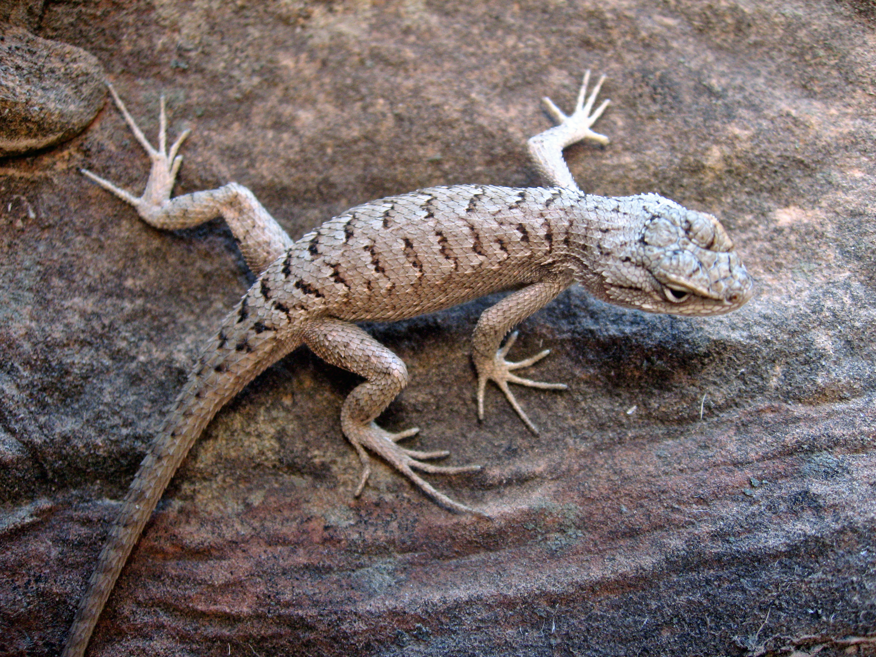 Fence Lizard (Sceloporus undulatus), Zion National Park, Utah, USA